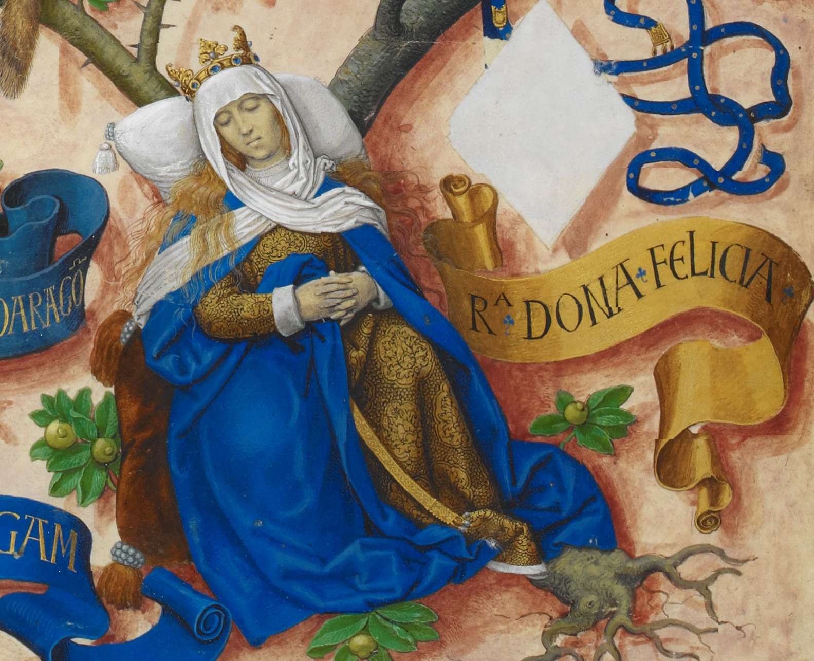 Felicia of Roucy, Queen of Aragon and Navarre as second wife of Sancho I and V Ramirez, King of Aragon and Navarre